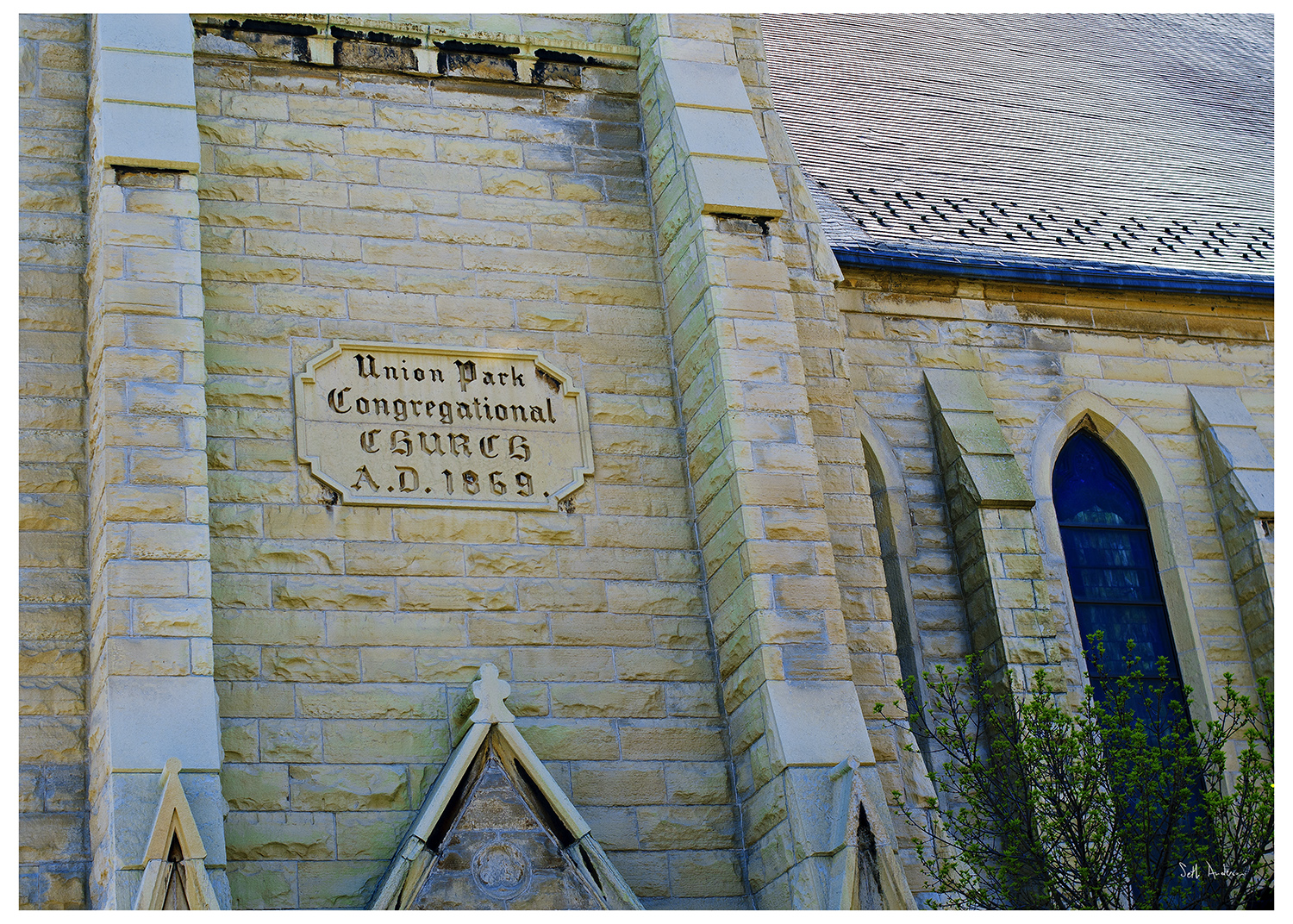 Union Park Congregational Church, est. 1869. Now known as the First Baptist Congregational Church